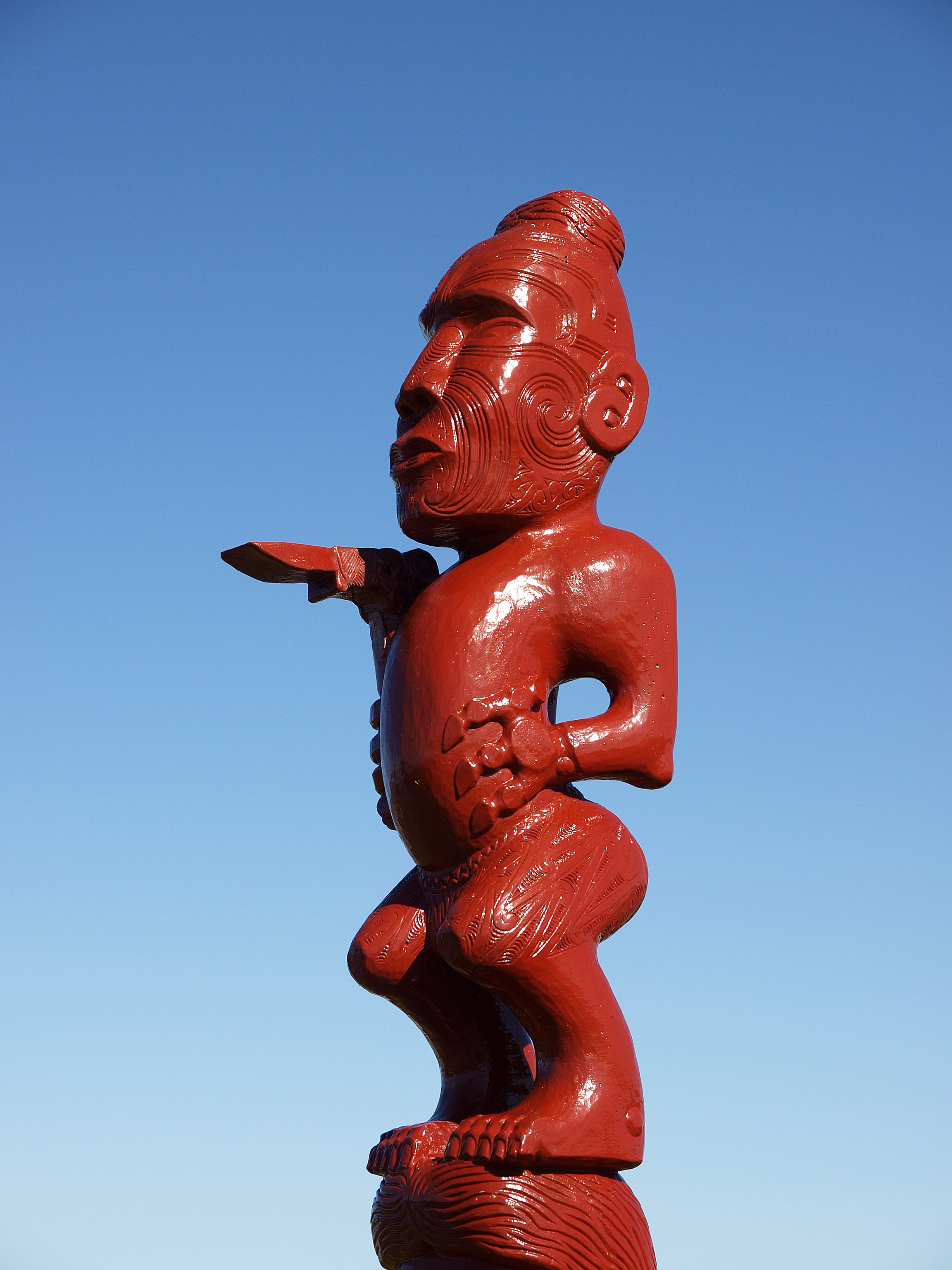 Maori Sculpture at Mount Victoria, Wellington, New Zealand